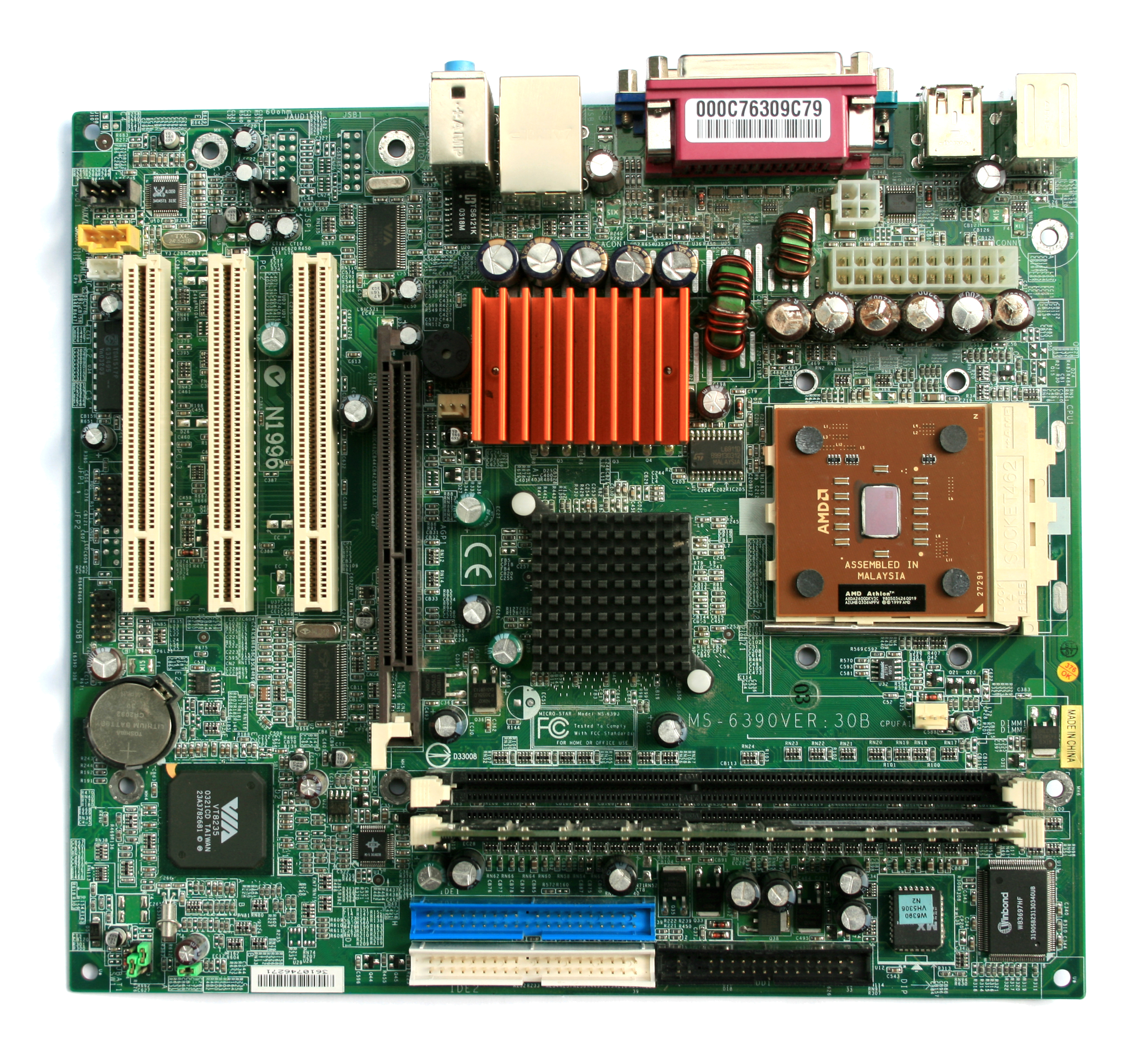 A photo of a microATX motherboard MS-6390 with an AMD Athlon 2.10 Ghz processor in a Socket 462 slot. It has a VIA VT8235 Chipset. It has bad capacitors in the CPU VRM section.